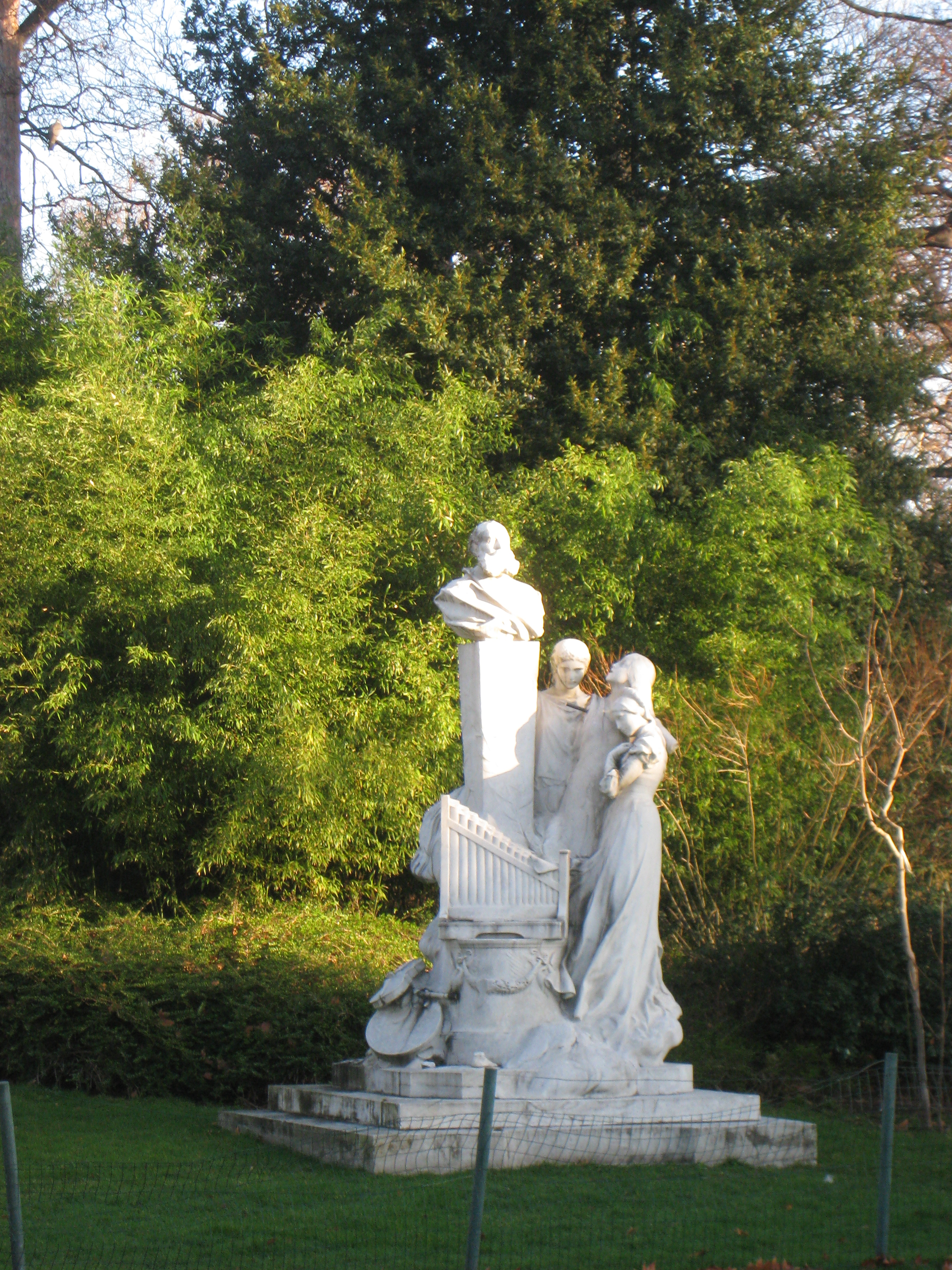 Parc Monceau, Paris, France - Memorial for Charles Gounod by Antonin Mercié. The original work is old enough so that copyright (if any) has long since expired.